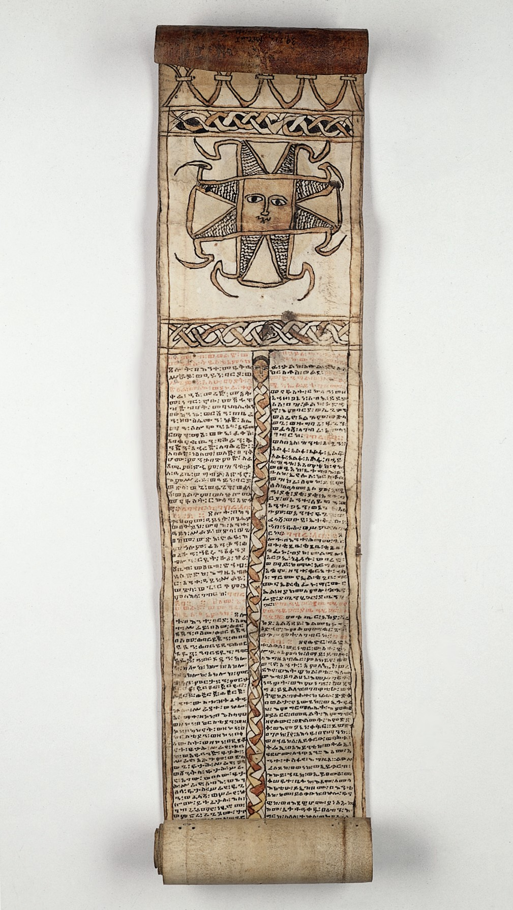 Ethiopian whole scroll. Asian Collection Keywords: ethopian manuscripts; oriental ms ix